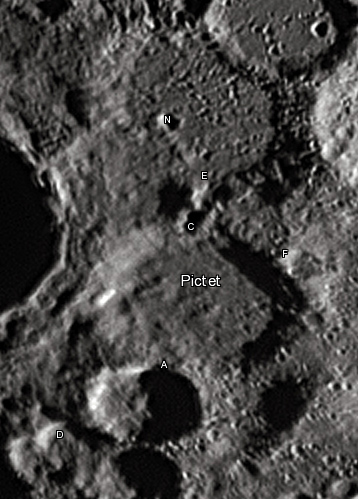 Pictet lunar crater as seen from Earth with satellite craters labeled